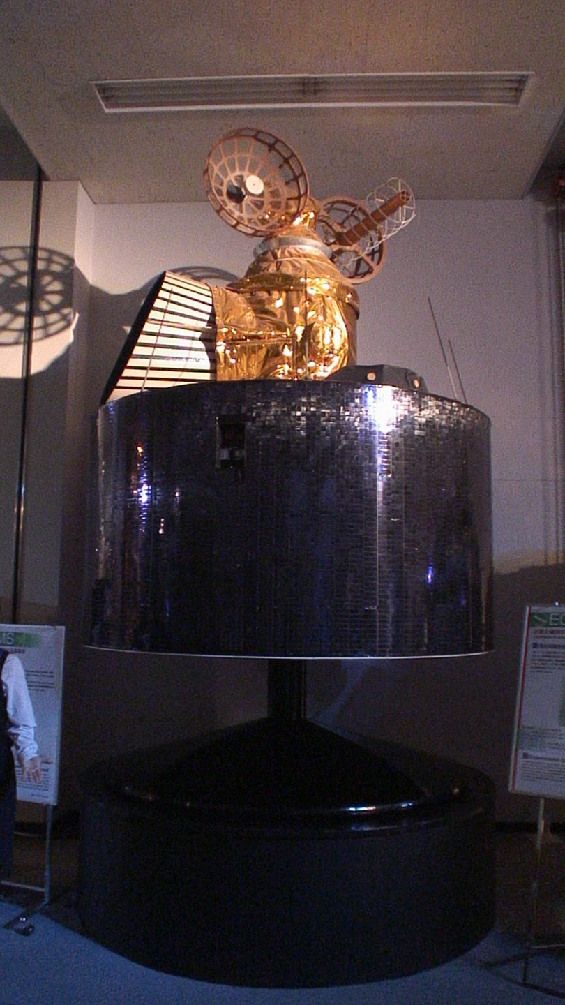 Japanese GMS(Geostationary Meteorological Satellite) knowns as "Himawari" #1~#5.